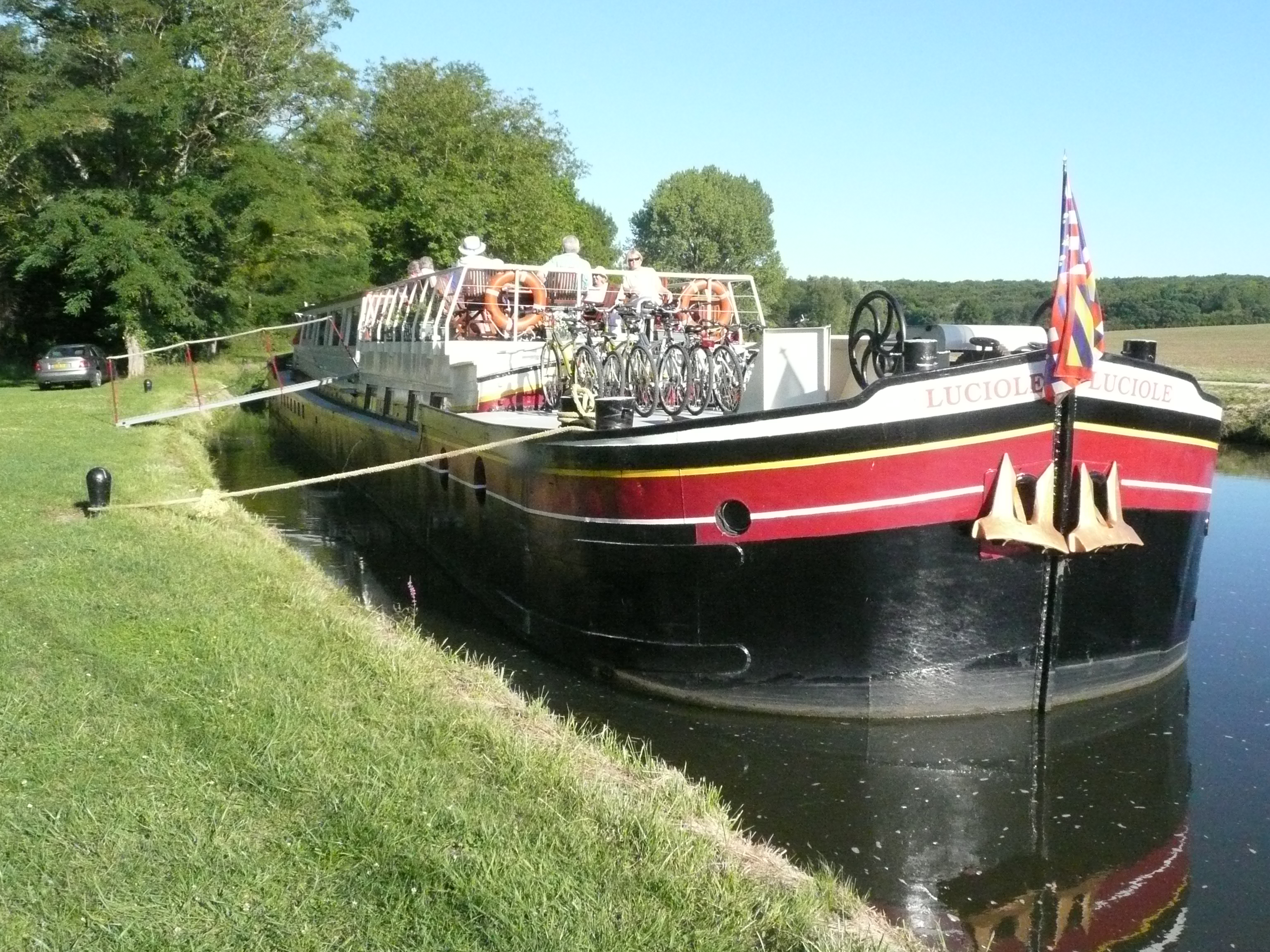 Hotel barge Luciole moored at Mailly le Chateau